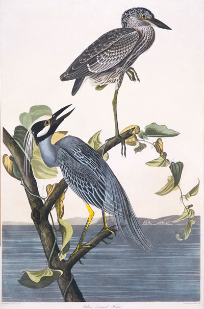 Yellow-crowned Night Heron (Nycticorax violaceus). Hand-coloured Engraving and Etching by R. Havell after J. J. Audubon